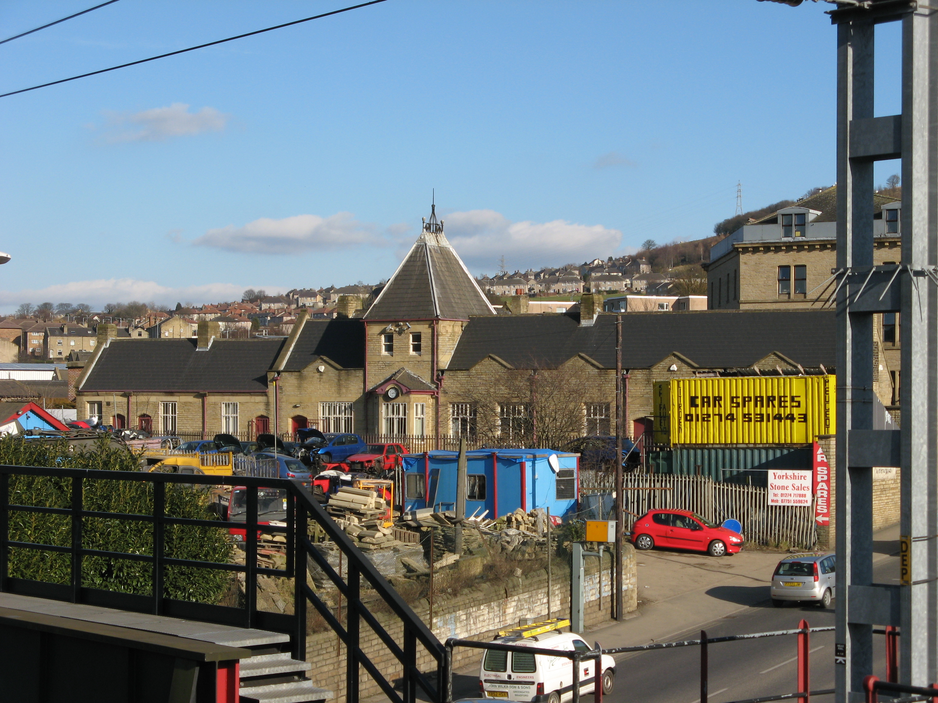 The former GNR Shipley & Windhill Station Viewed from the end of Platform 3 at Shipley Station. This was the terminus of the Great Northern Railway loop from Laisterdyke via Eccleshill, Idle & Thackley. It closed to passengers in 1931 & freight in 1964. See Shipley_and_Windhill_railway_station